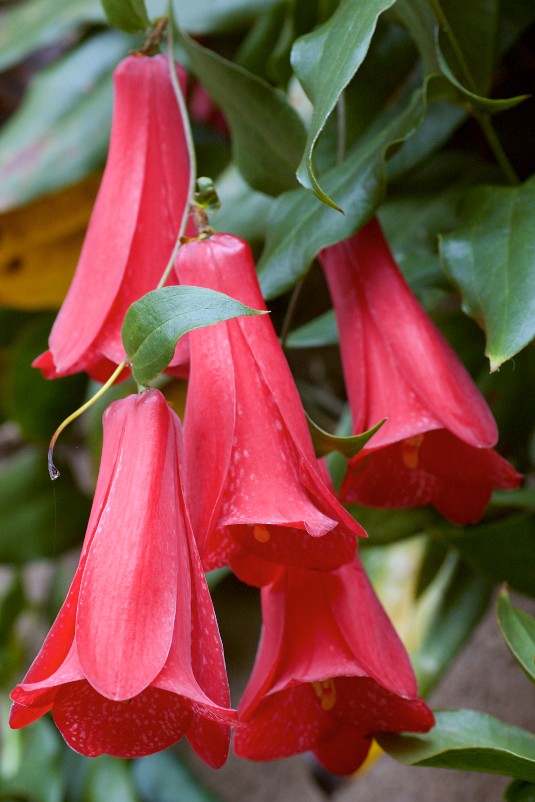 Common name: Chilean Bell Flower Species from Chile Photographed at The San Francisco Botanical Garden at Strybing Arboretum